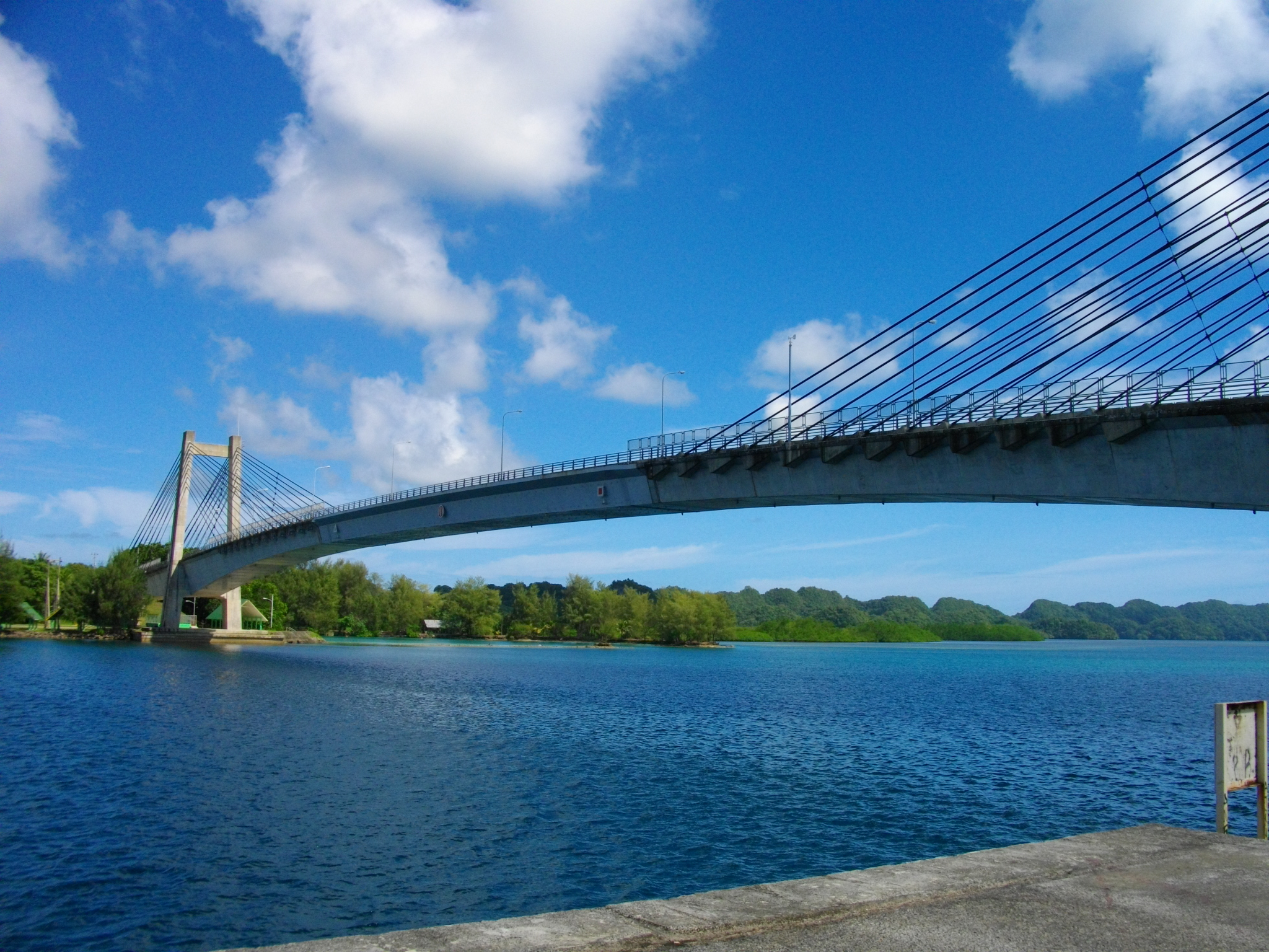 Japan-Palau Friendship Bridge